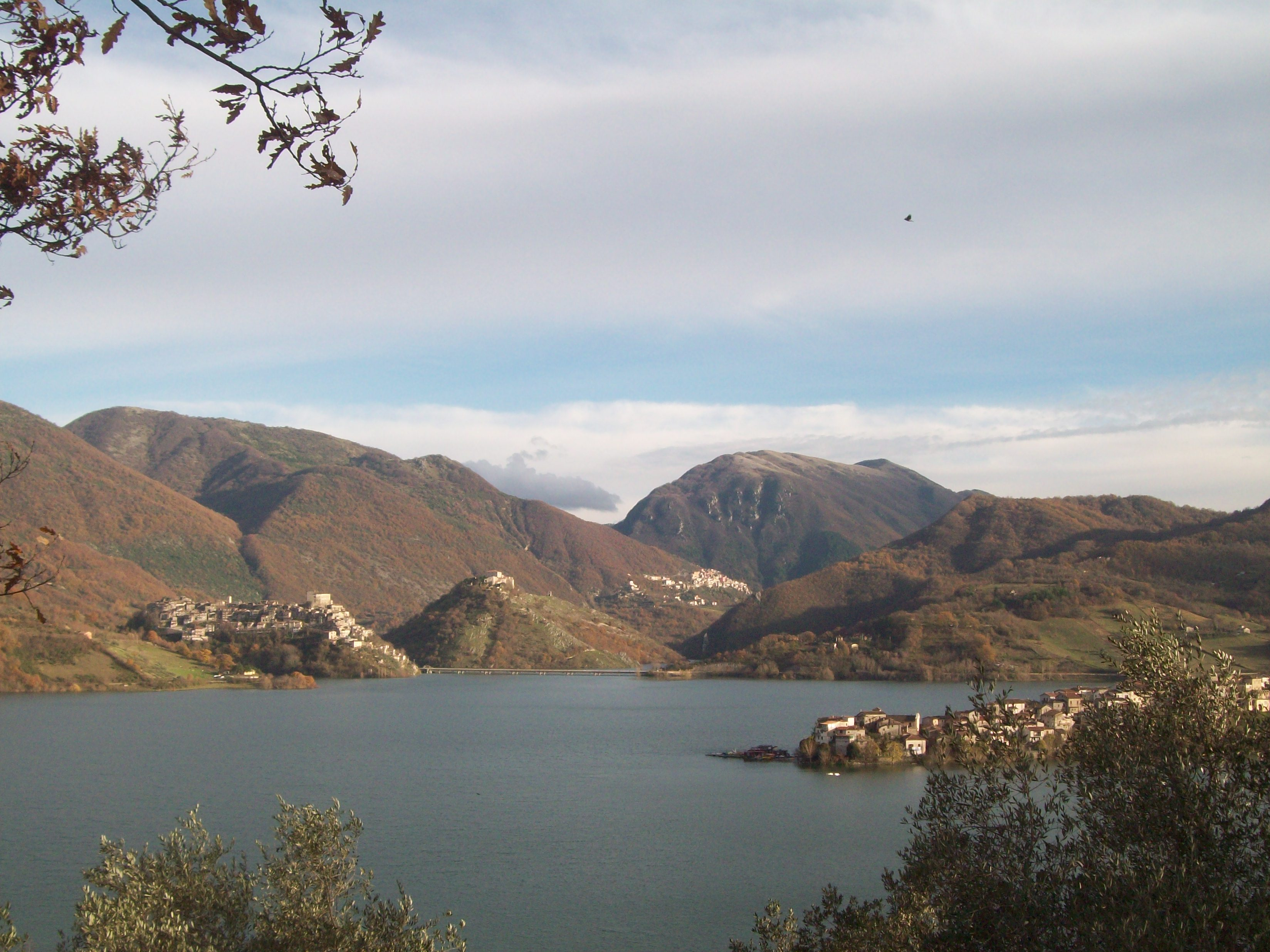 Lago del Turano - Italy Villages: Castel di Tora - Antuni - Ascrea - Colle di Tora - Italy